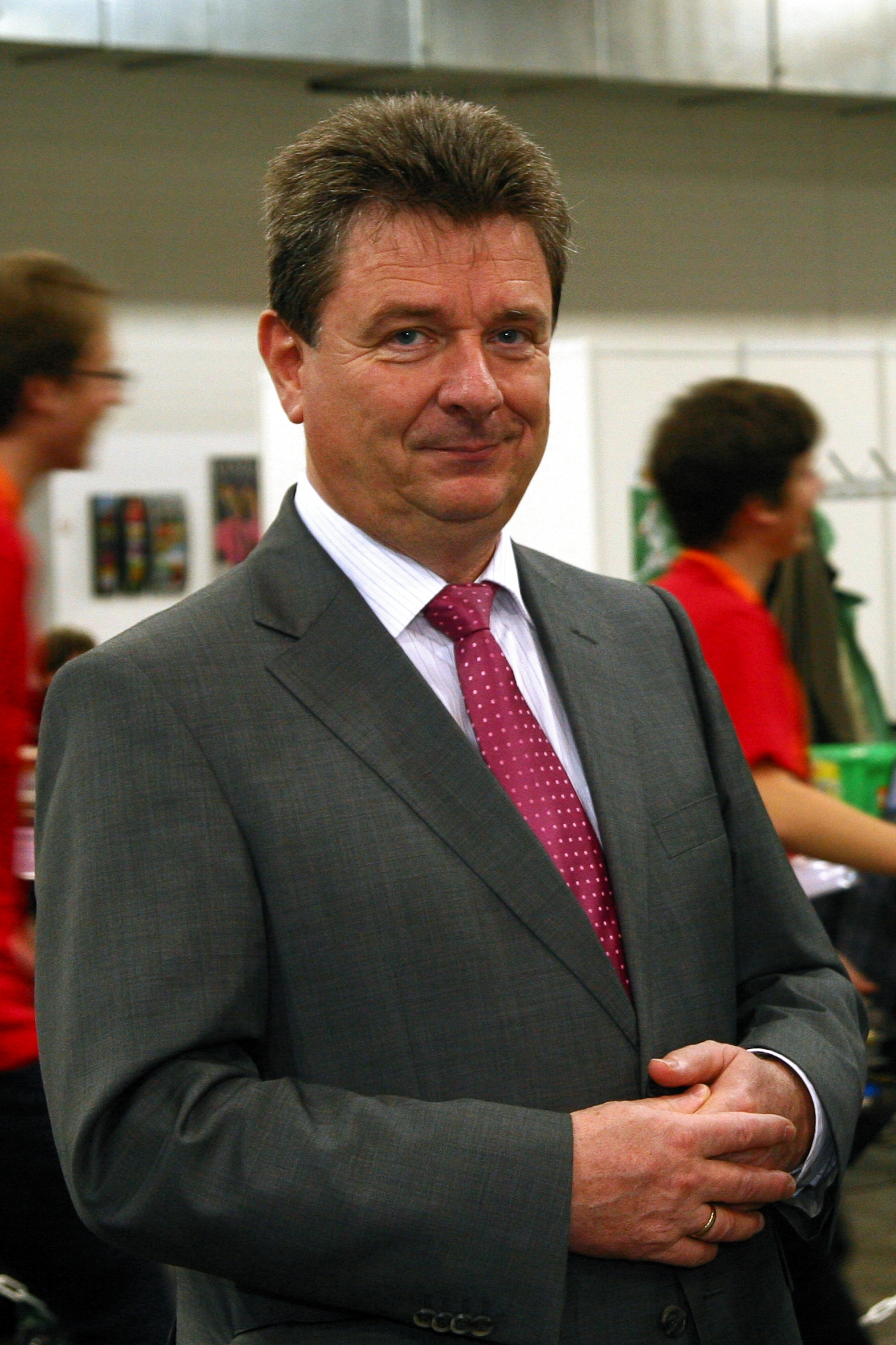 Dr. Lutz Trümper at the RoboCup German Open 2012 in Magdeburg.